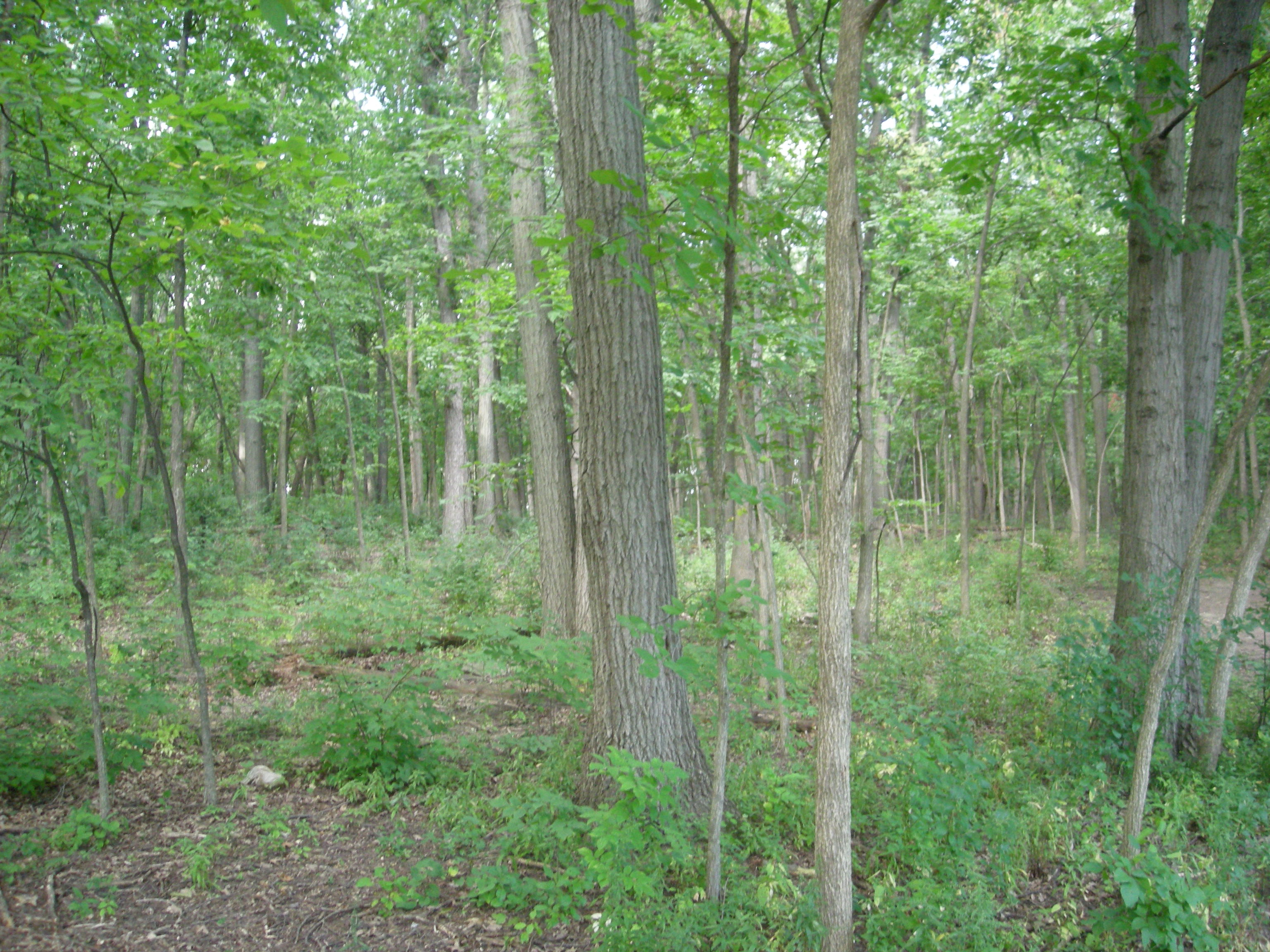 Britton Woods at County Farm Park in Ann Arbor, Michigan (United States).